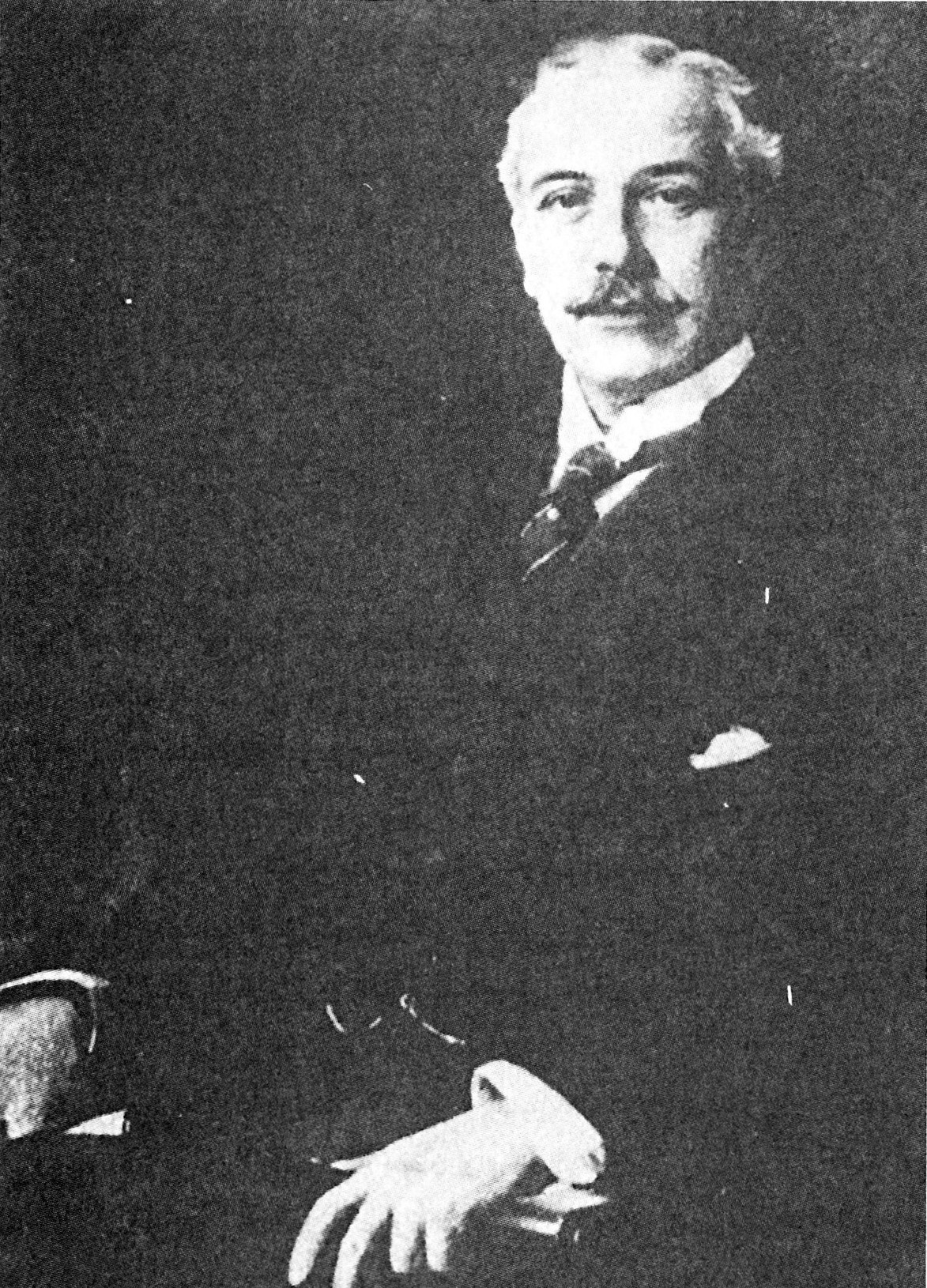 Sir Henry Deterding